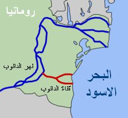 Map of the Danube-Black Sea Canal Source: Created by Bogdan Giuşcă